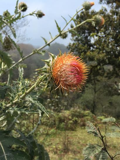 Insecticide plant